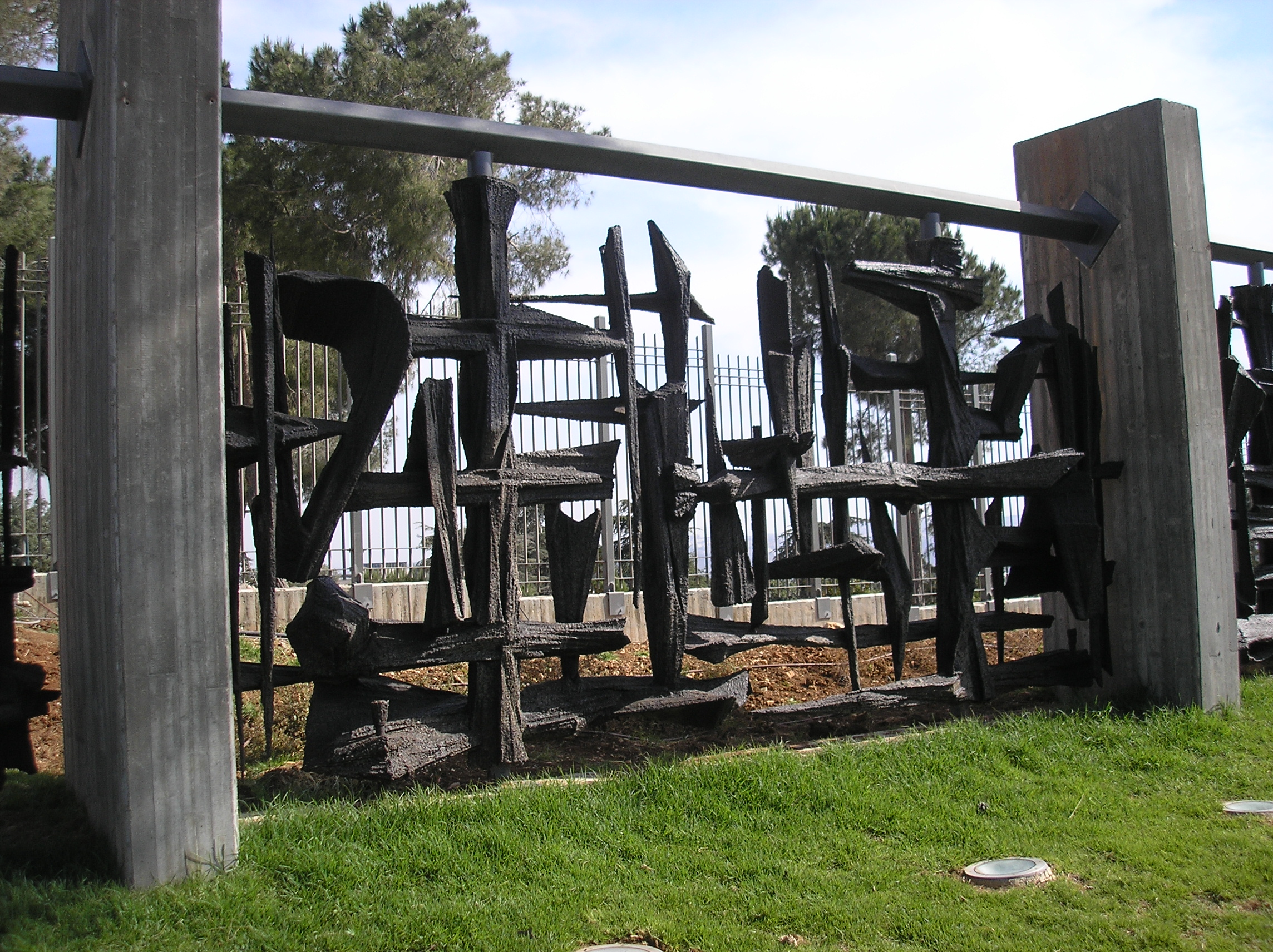 The Knesset - Palombo Gates